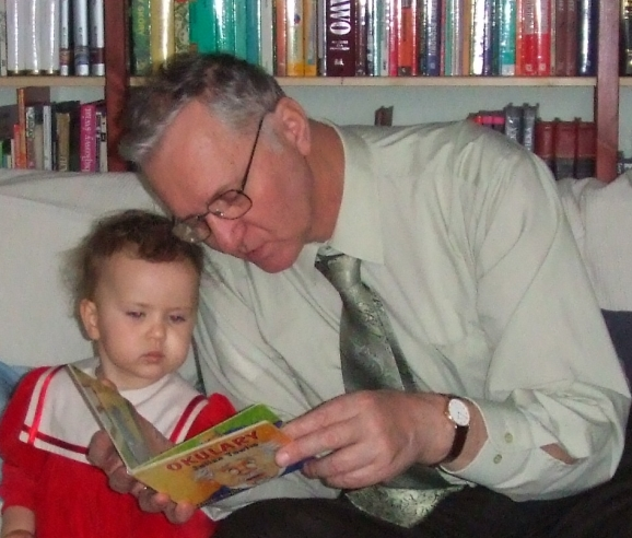 Professor Bartminski with one of his 14 grandchildren, Warsaw, Poland 2006